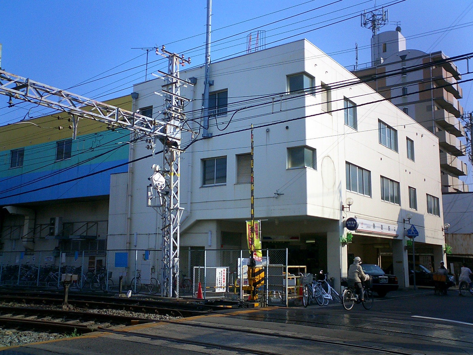 Sanyo Electric Railway Main Line & Aboshi Line Shikama Station